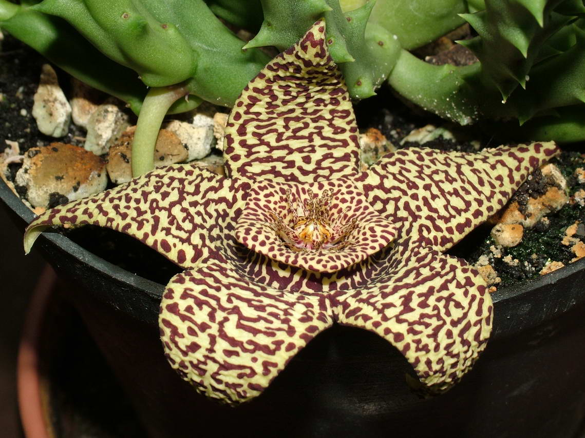 Flowering Orbea variegata Syn.: Stapelia variegata